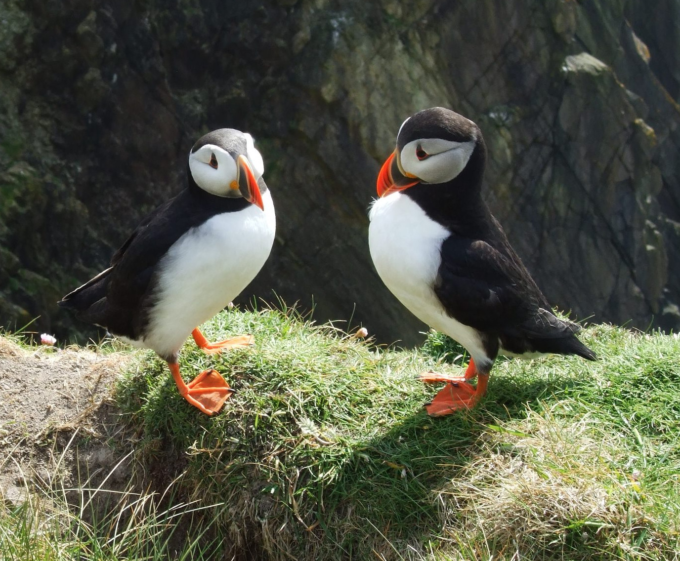 Two Atlantic Puffins in breeding plummage. Picture taken at Sumburgh Head, Mainland, Shetland, United Kingdom.